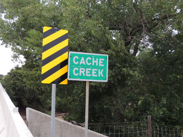 Image illustrates the State of Oklahoma's designation as the river being Cache Creek (Oklahoma). Photo of Cache Creek (Oklahoma) sign taken with Nikon camera.